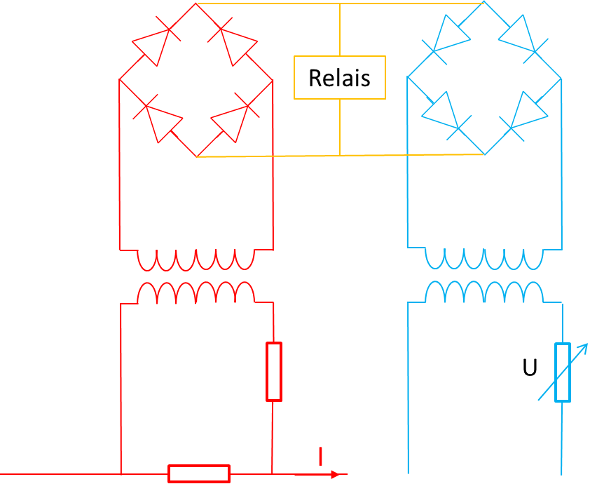 Principle from a rectifier distance protection relay